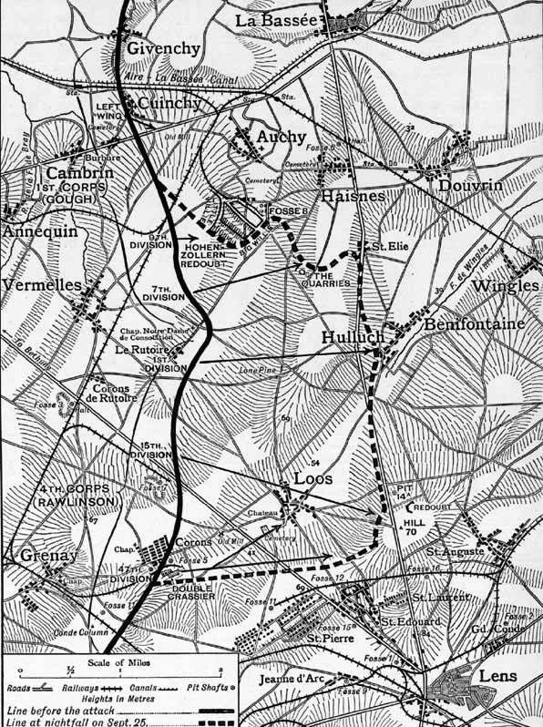 Map of Battle of Cambrai